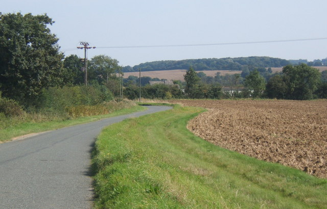 Lane towards Shimpling Looking east between Gatefields Farm and Waverley Holding.